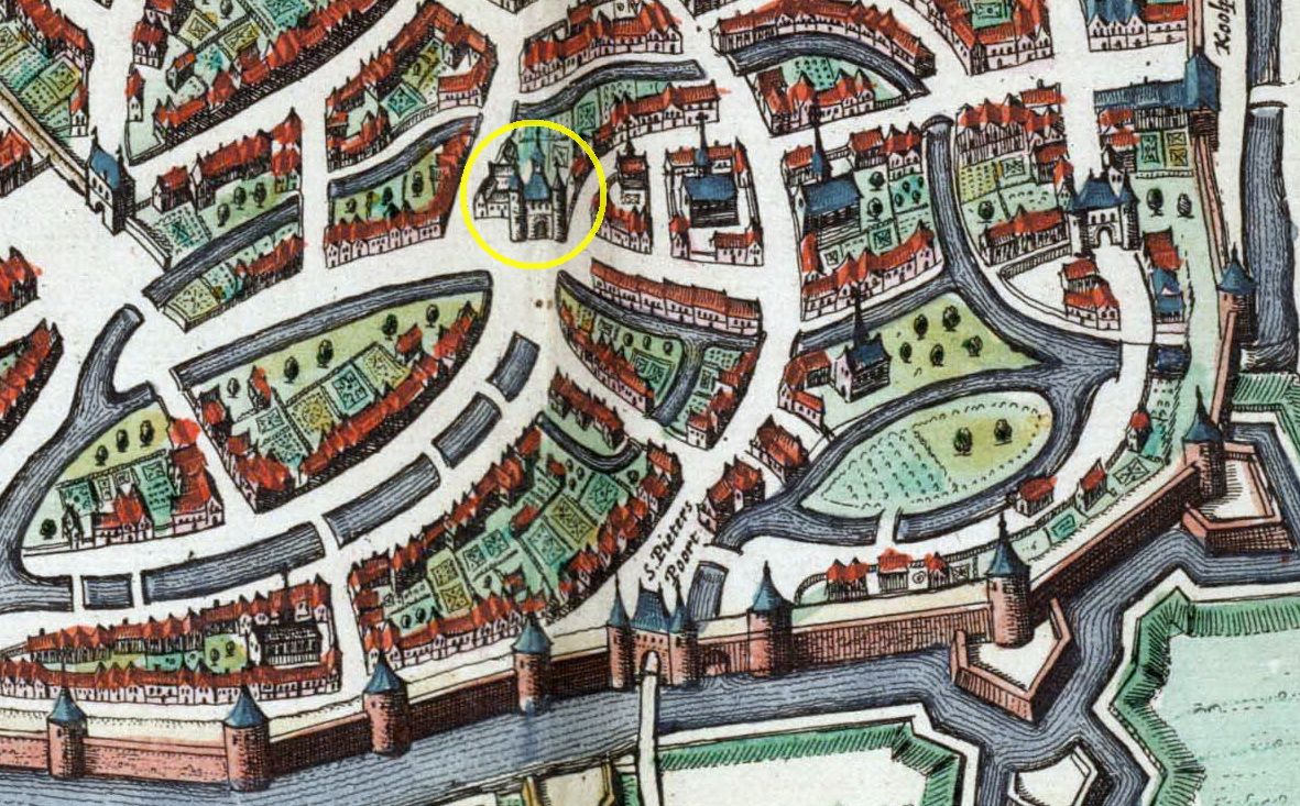 Maastricht, the Netherlands. Detail of a map of Maastricht from the Atlas van Blaeu (1652), showing the Jekerkwartier with several city gates. In the yellow circle is Looierspoort which was part of the first Medieval city wall.